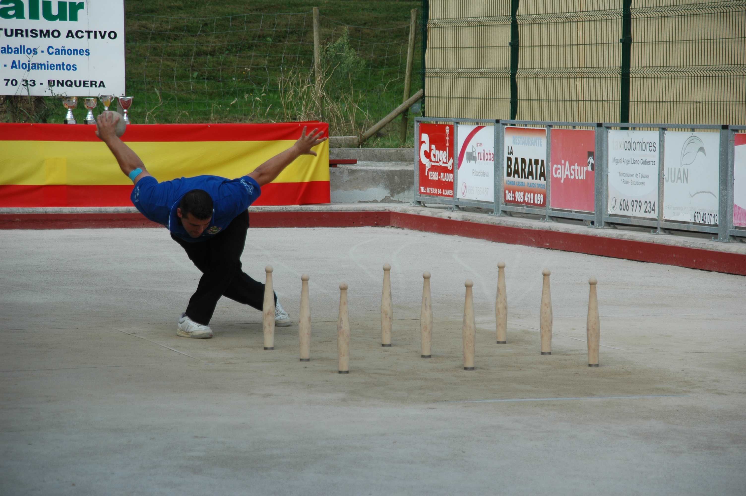 Bolo palma is a very popular variant of bowls originated and played throughout the region of Cantabria, north of Spain. The game was also spread to neighbouring areas of eastern Asturias and northern Palencia.